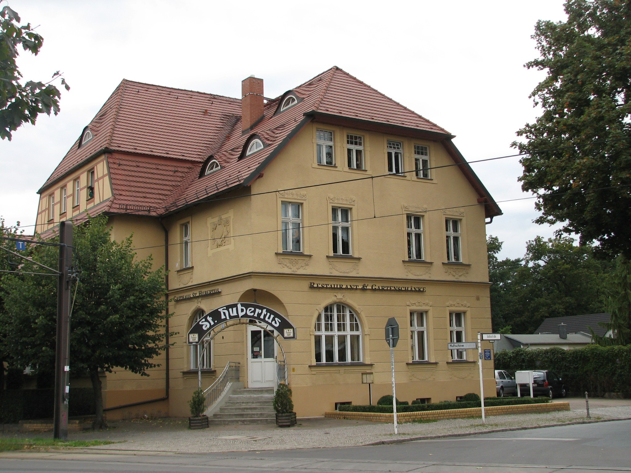 Restaurant